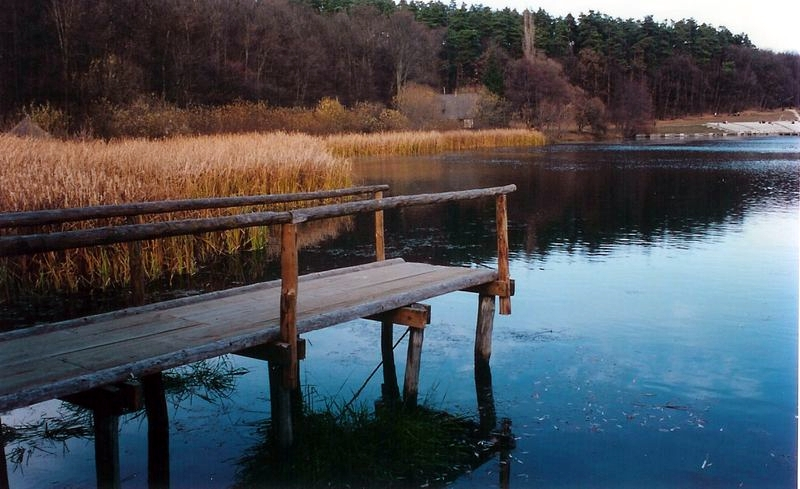 lake in Traditional Crafts Museum, , Romania